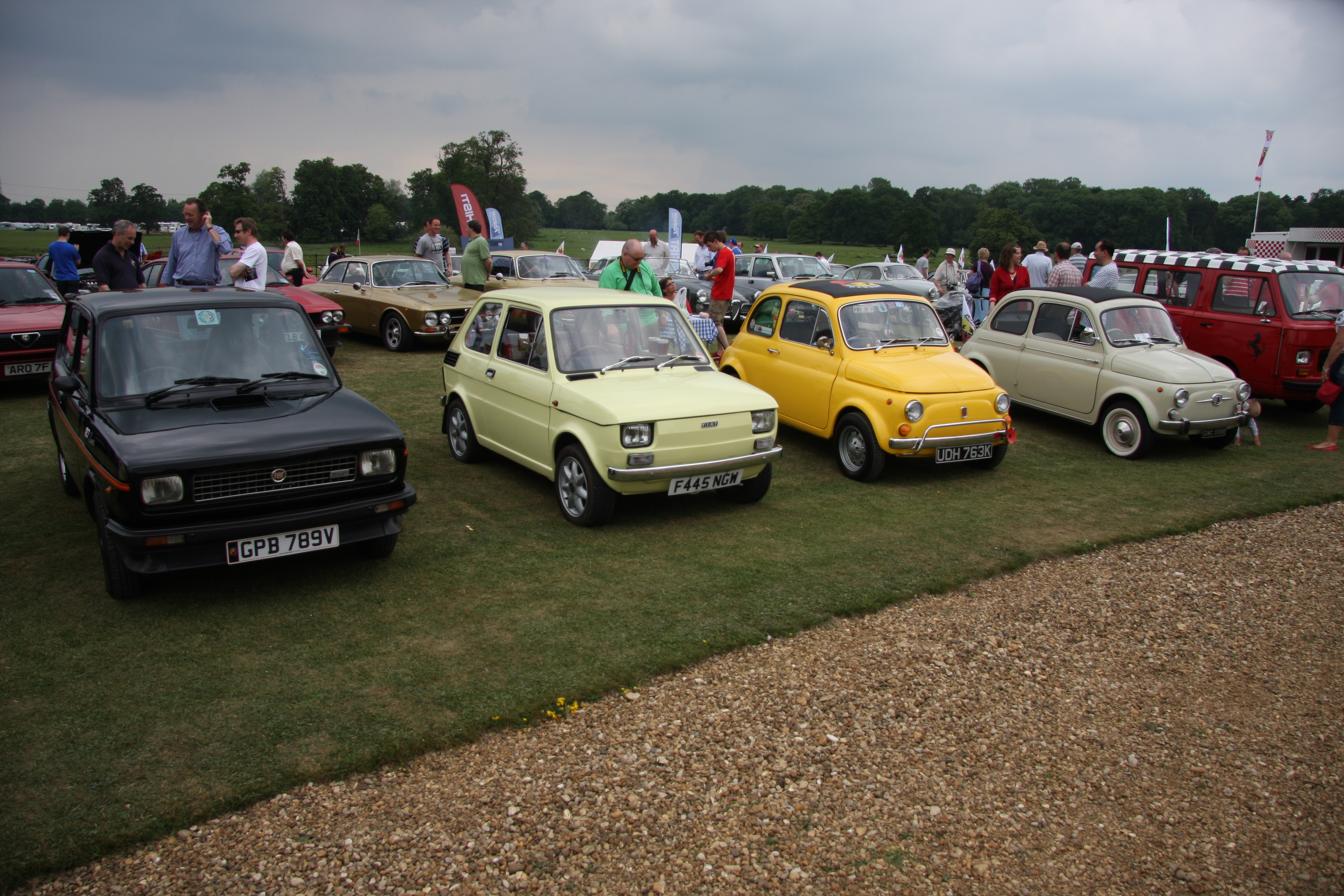 Auto Italia Stanford Hall June 2010